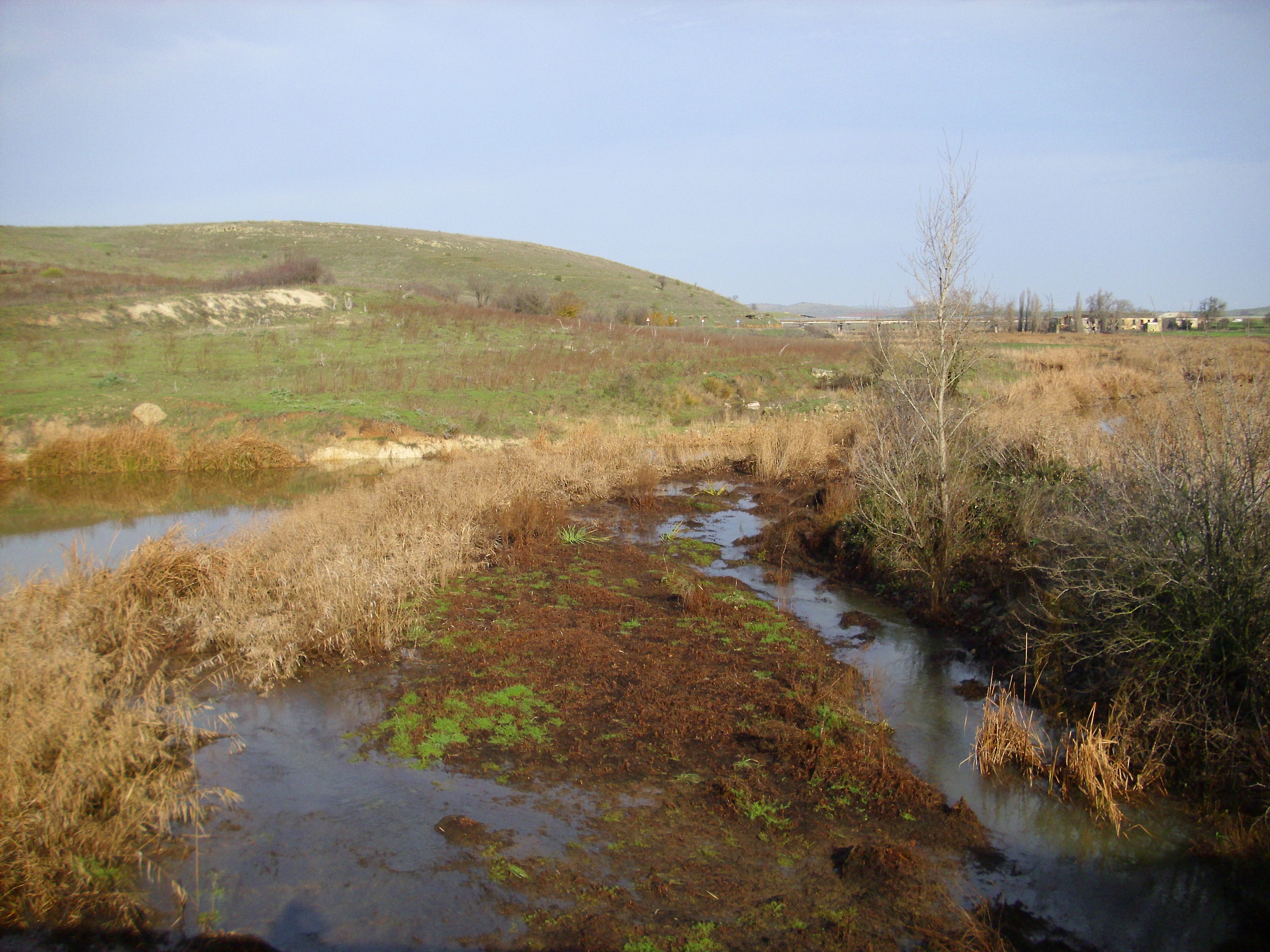 Guadiana river from Poblete bridge, Campo de Calatrava, Spain